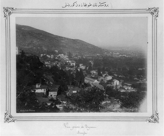 View of Bursa from Tophane between 1880 and 1893